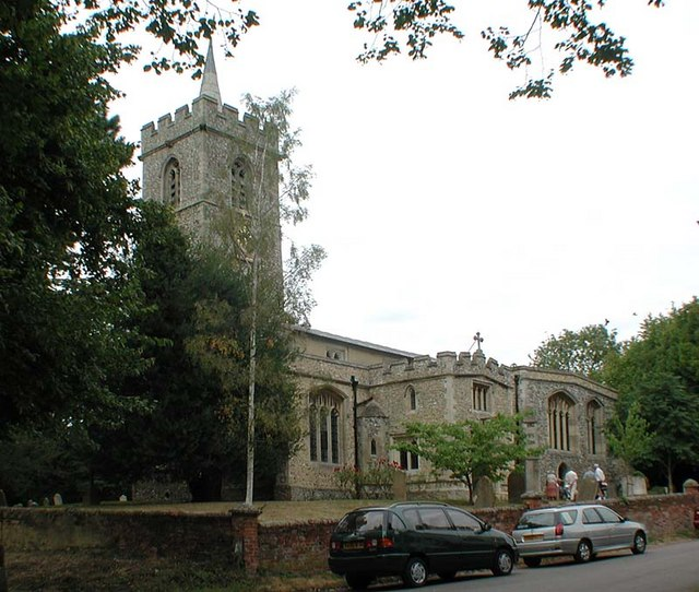 St Mary, Furneux Pelham, Herts